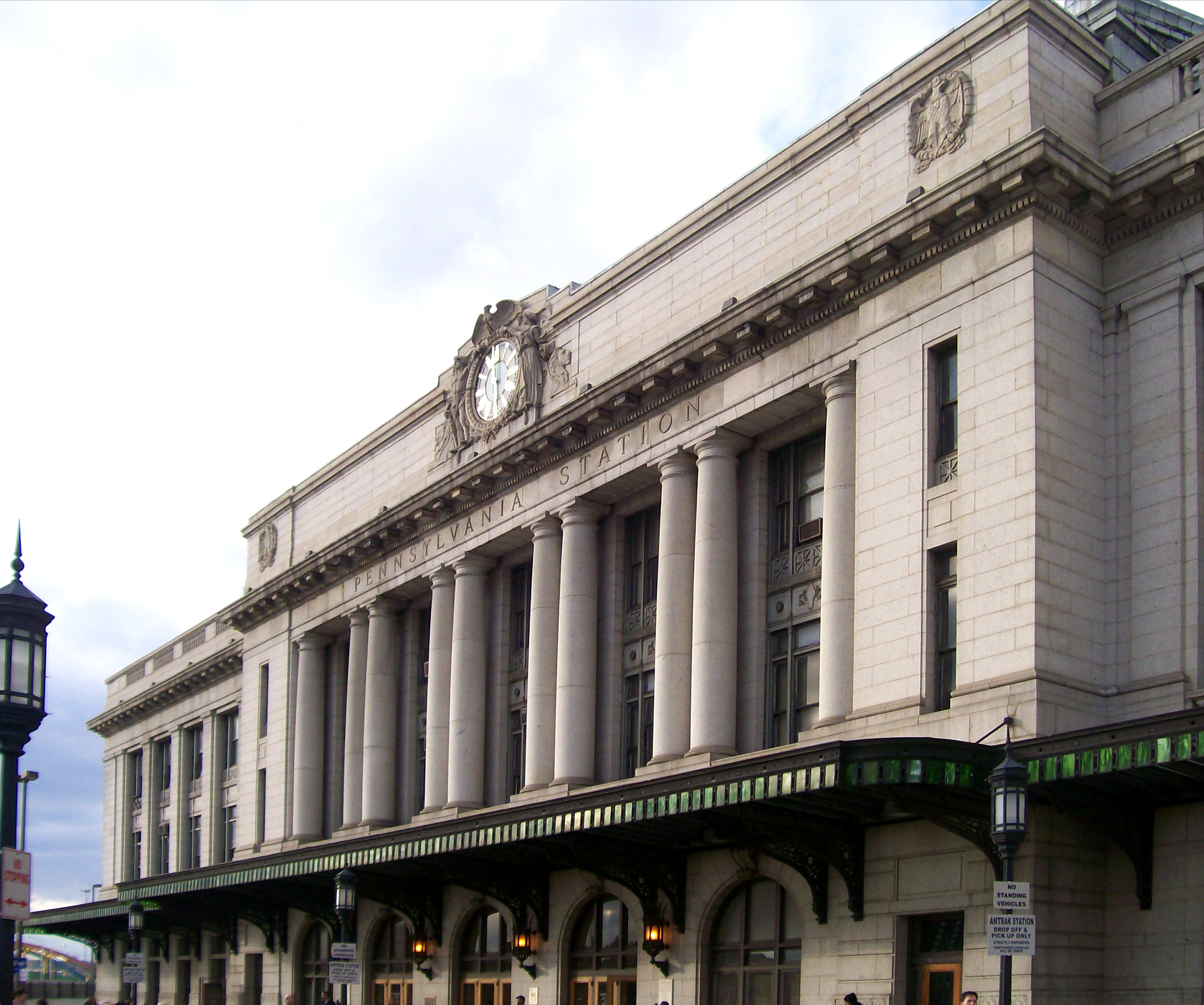 Taken by me, IRTEagle102704- Released into the public domain.